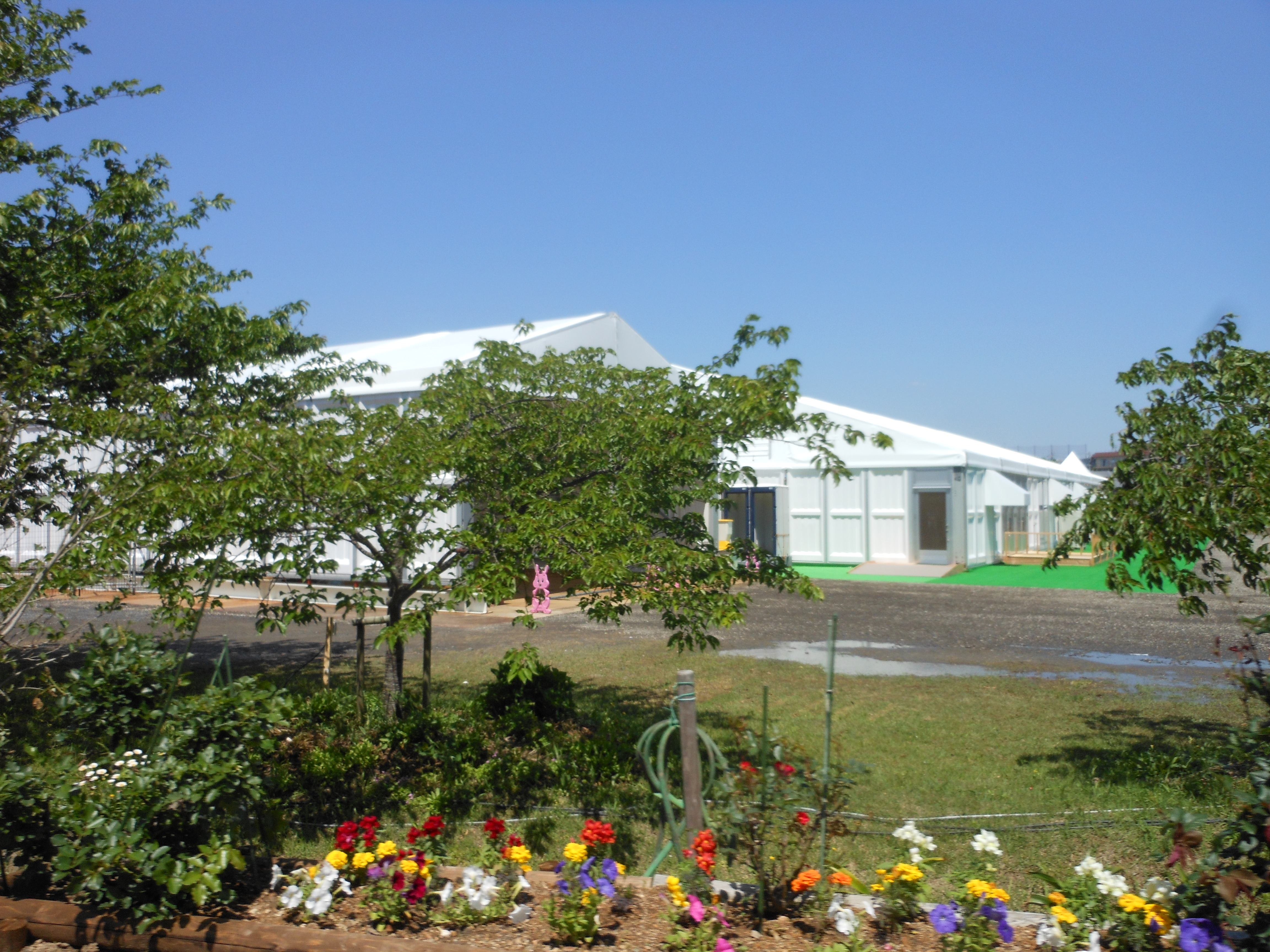 This was the checkpoint around Kashikojima Bridge, Shima, Mie, Japan. This checkpoint protected Kashiko Island, where hosted the G7 Ise-Shima Summit